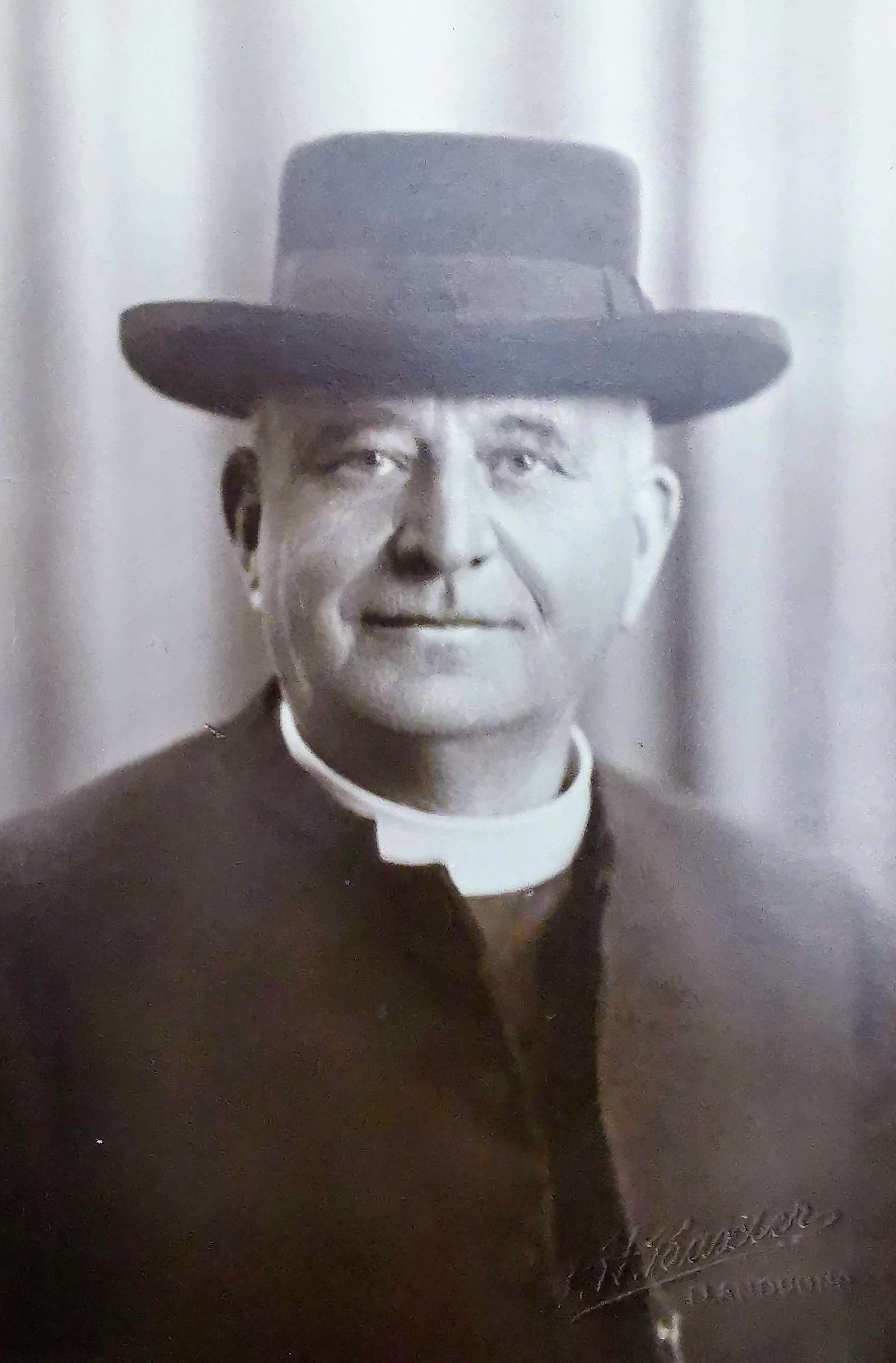 A portrait from the Welsh Portrait Collection at the National Library of Wales. Depicted person: John Silas Evans – Welsh priest and astronomer